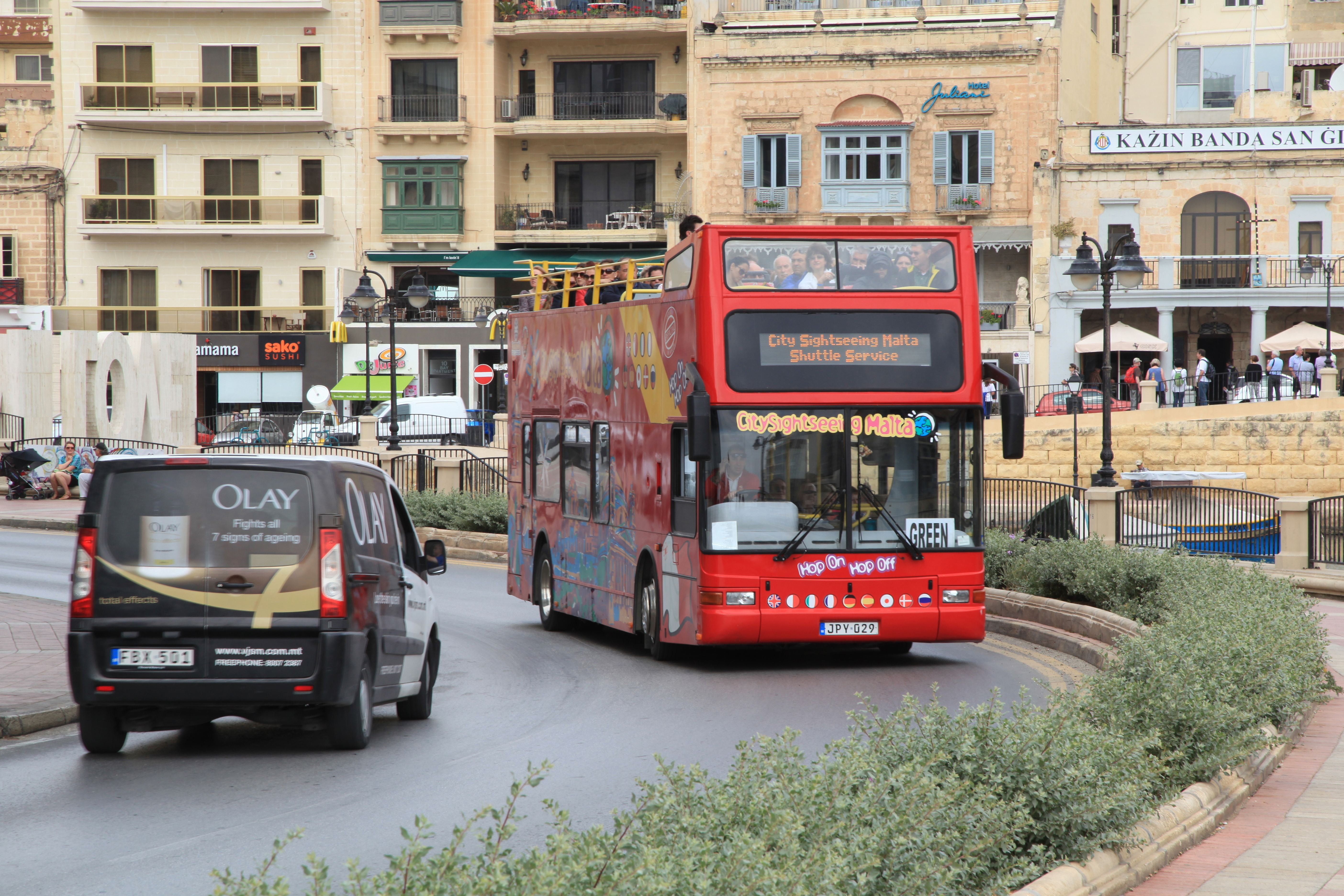 Triq Ġorġ Borg Olivier (front) and Triq San Ġorġ (rear) in St. Julian's, Malta